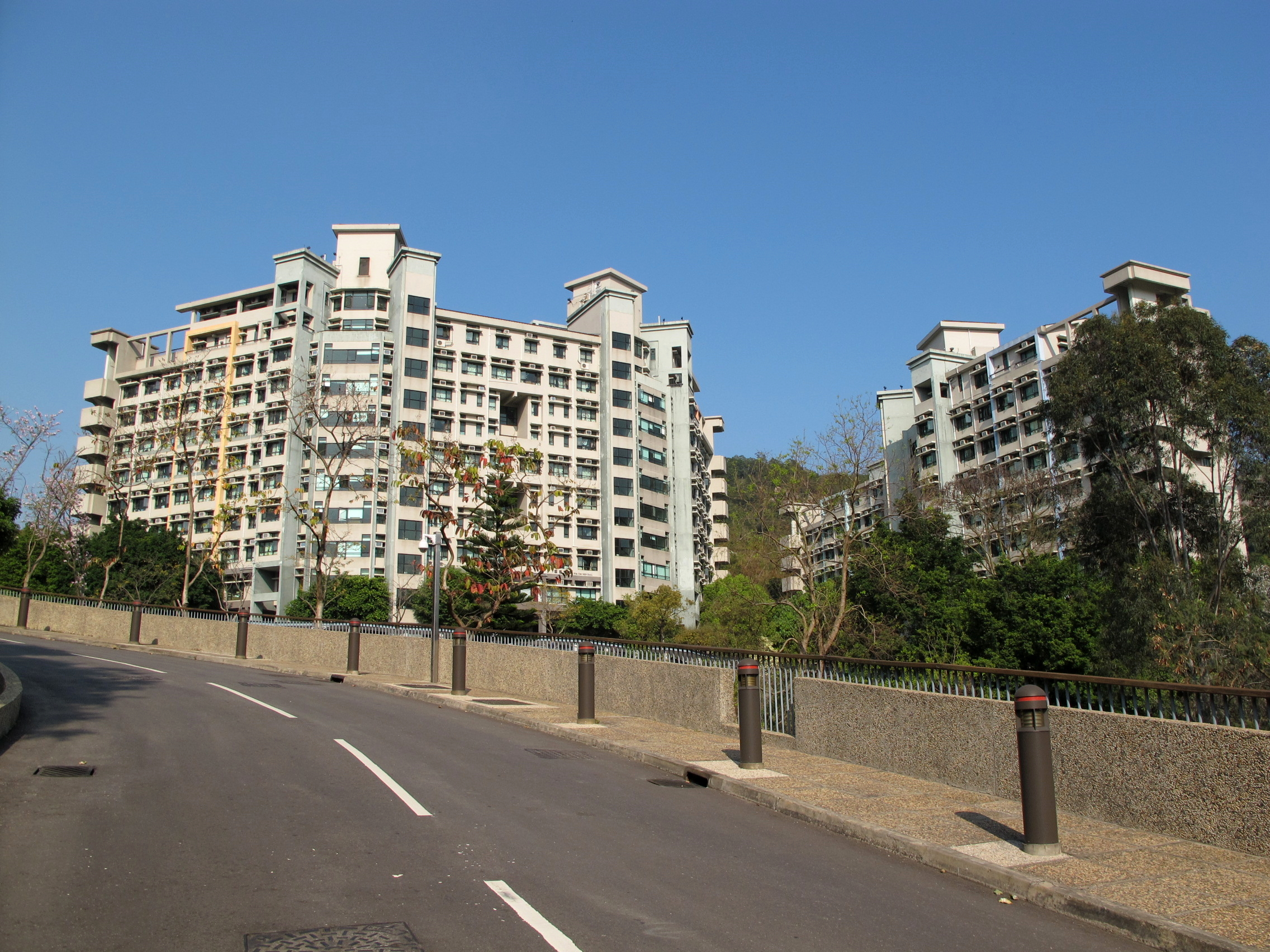 Lingnan University Southern Hostel